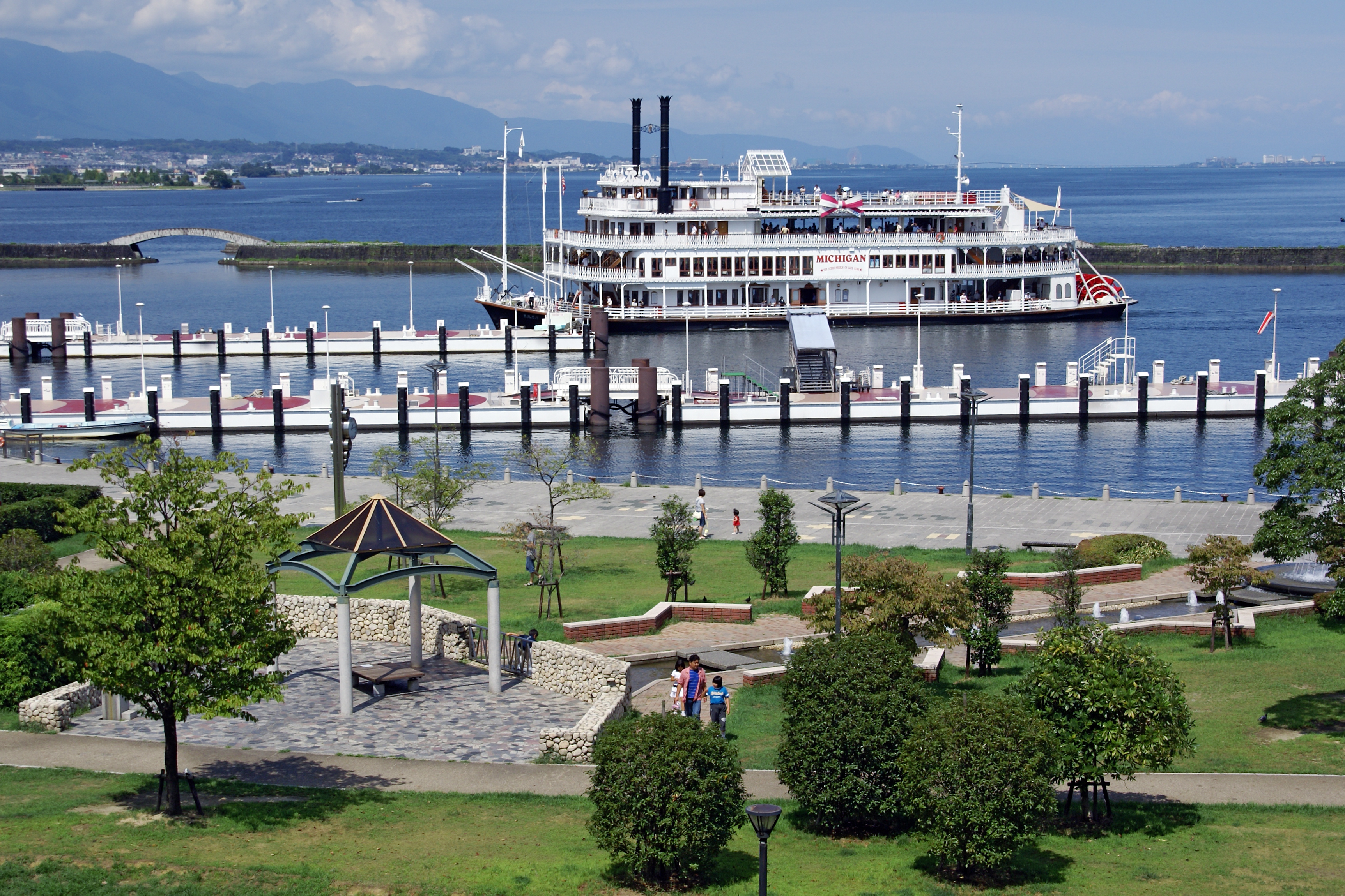 Otsu Port in Otsu, Shiga prefecture, Japan